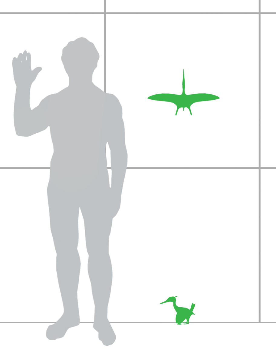 Size of the pterodactyloid pterosaur Aerodactylus scolopaciceps compared with a human. Shown in dorsal flight (top) and standing (bottom) postures. Based on the size of the largest known specimen, MCZ 1505. Measurements from Bennett, 2013.